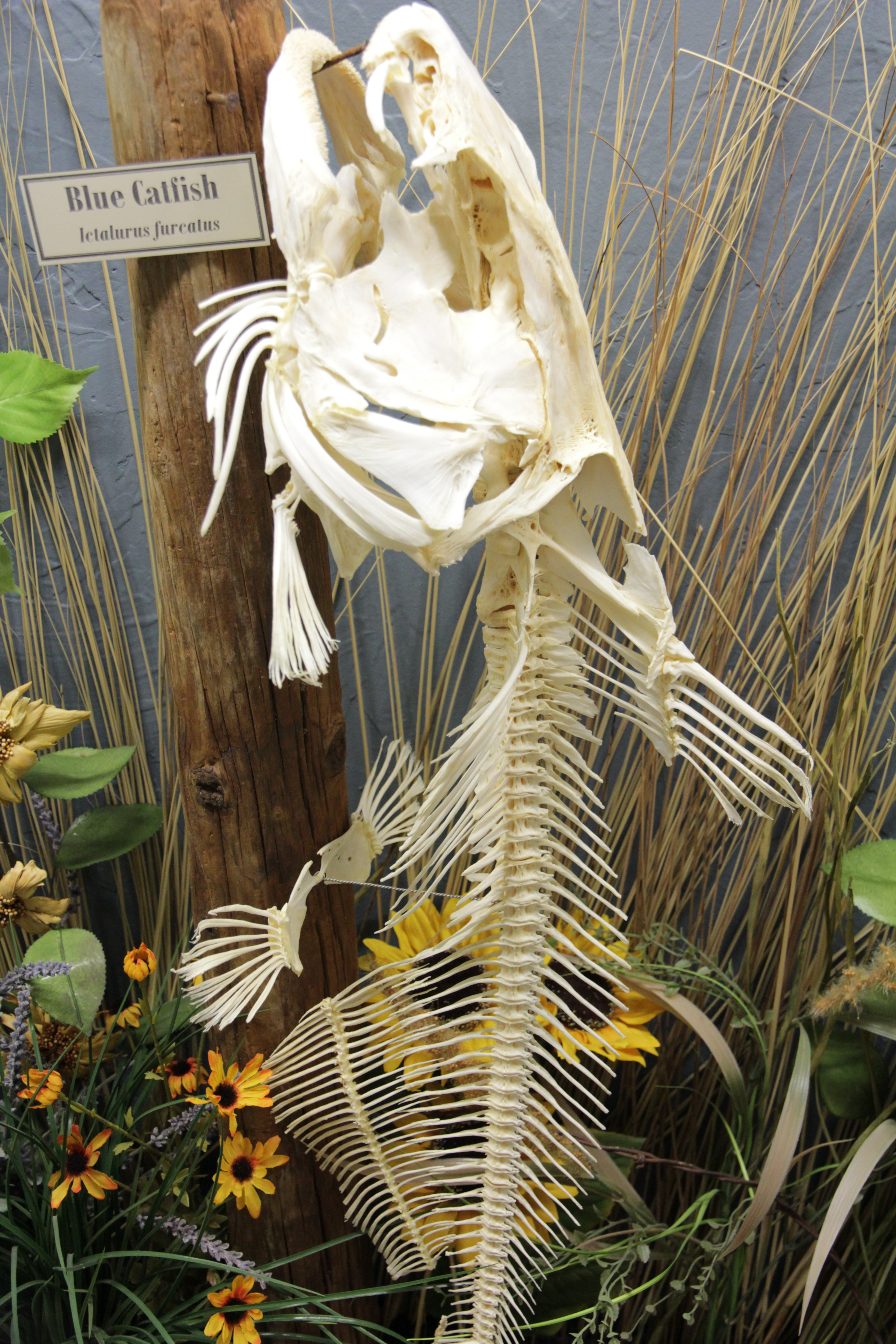 Skeleton a blue catfish, on display at the Museum of Osteology.